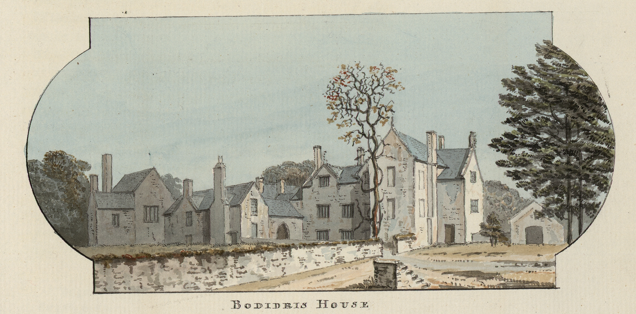 An image from a set of 8 extra-illustrated volumes of A tour in Wales by Thomas Pennant (1726-1798) that chronicle the three journeys he made through Wales between 1773 and 1776. These volumes are unique because they were compiled for Pennant's own library at Downing. This edition was produced in 1781. The volumes include a number of original drawings by Moses Griffiths, Ingleby and other well known artists of the period. Thomas Pennant (1726-1798)